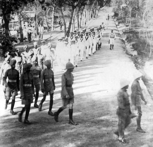 British Indian and Italian navy units marching in Tientsin, c. 1910-1915. Great Britain and Italy both had concessions in Tientsin.